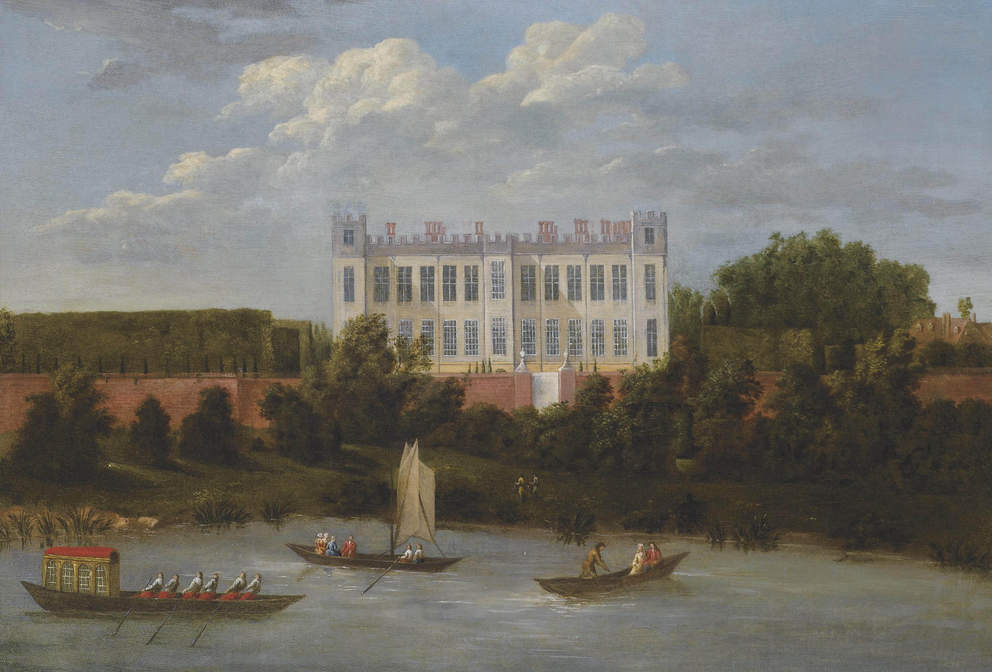 View across the Thames of Syon House